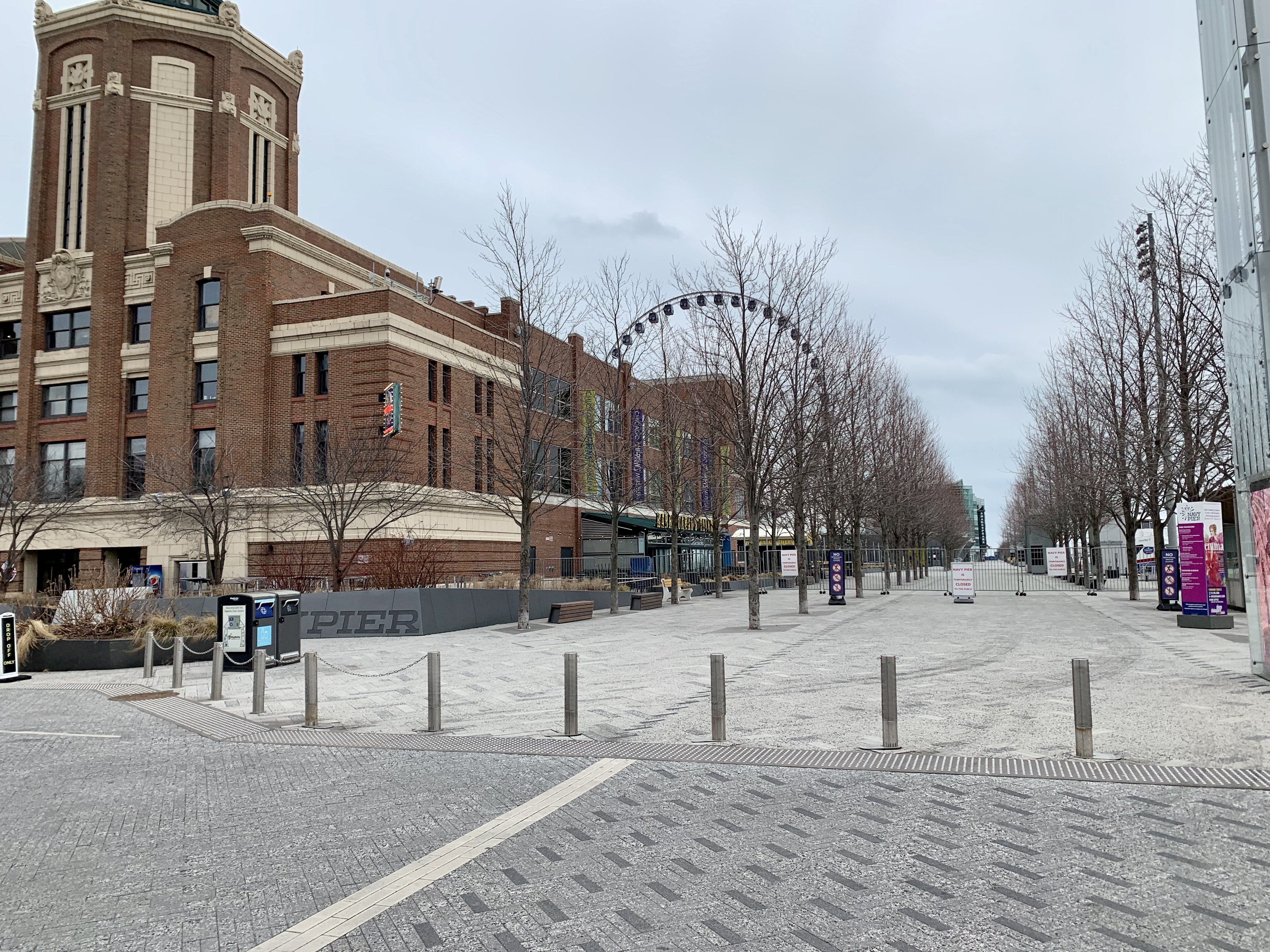 Abandoned Chicago during COVID-19